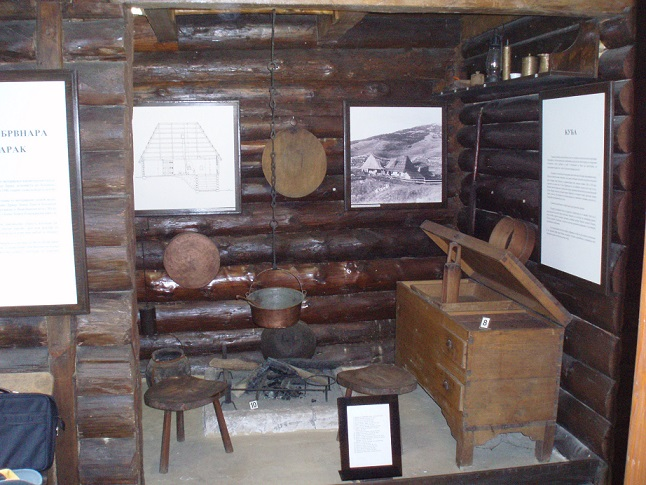 The permanent exhibition at the ethno-house "Brvnara" in Bački Jarak